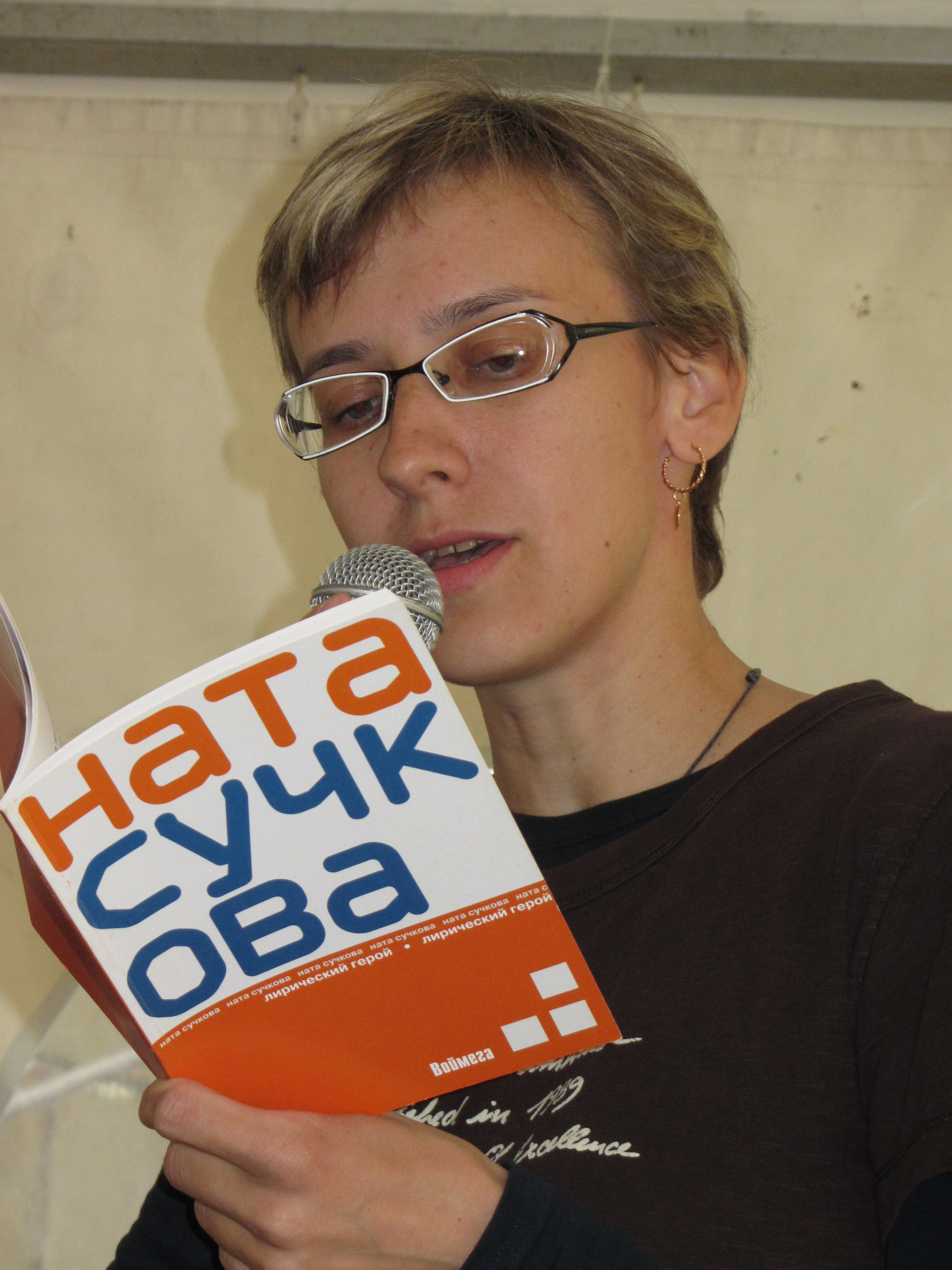 Russian poet Nata Suchkova at the 7 Moscow International Book Festival, 2012